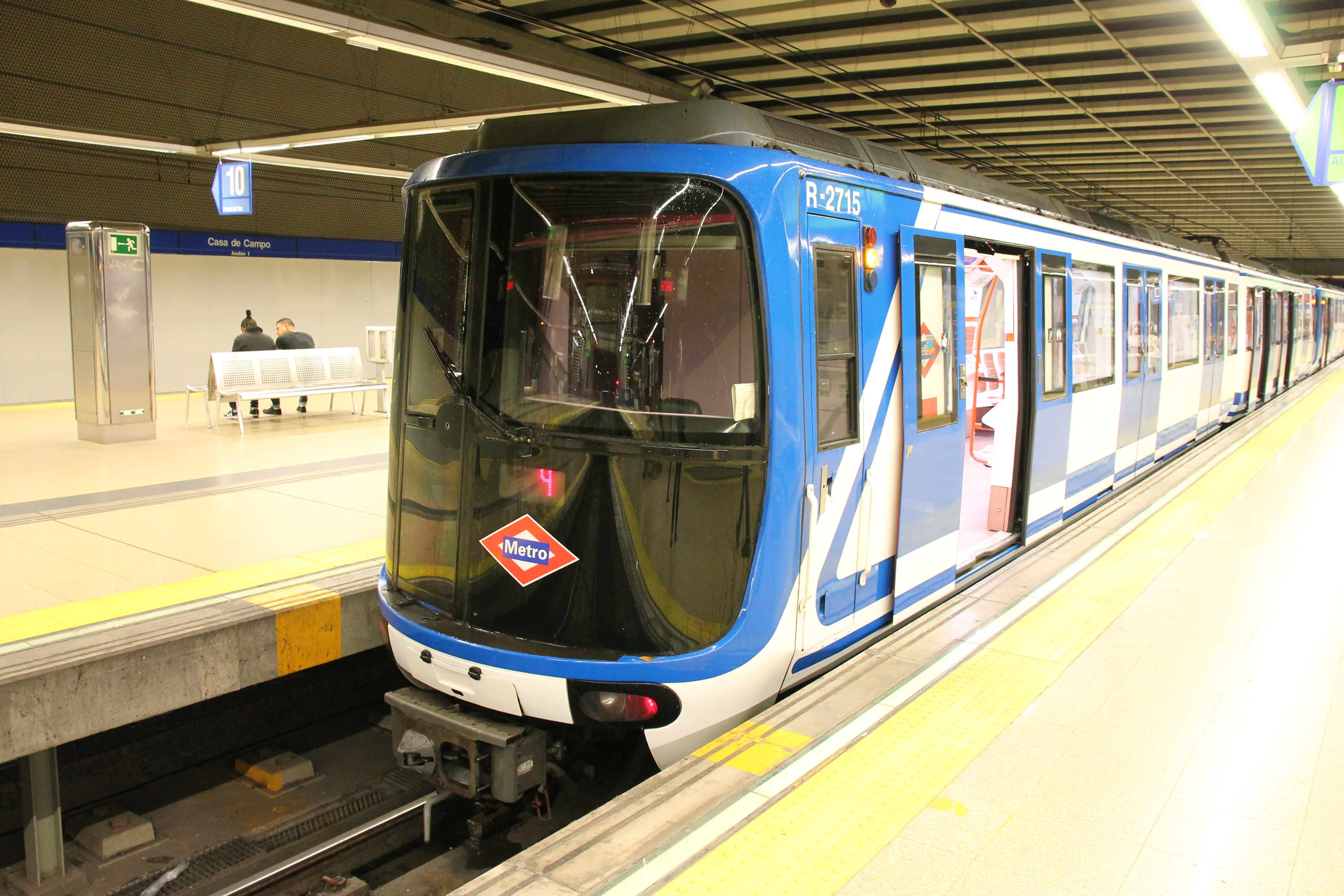 Casa de Campo metro station, Madrid